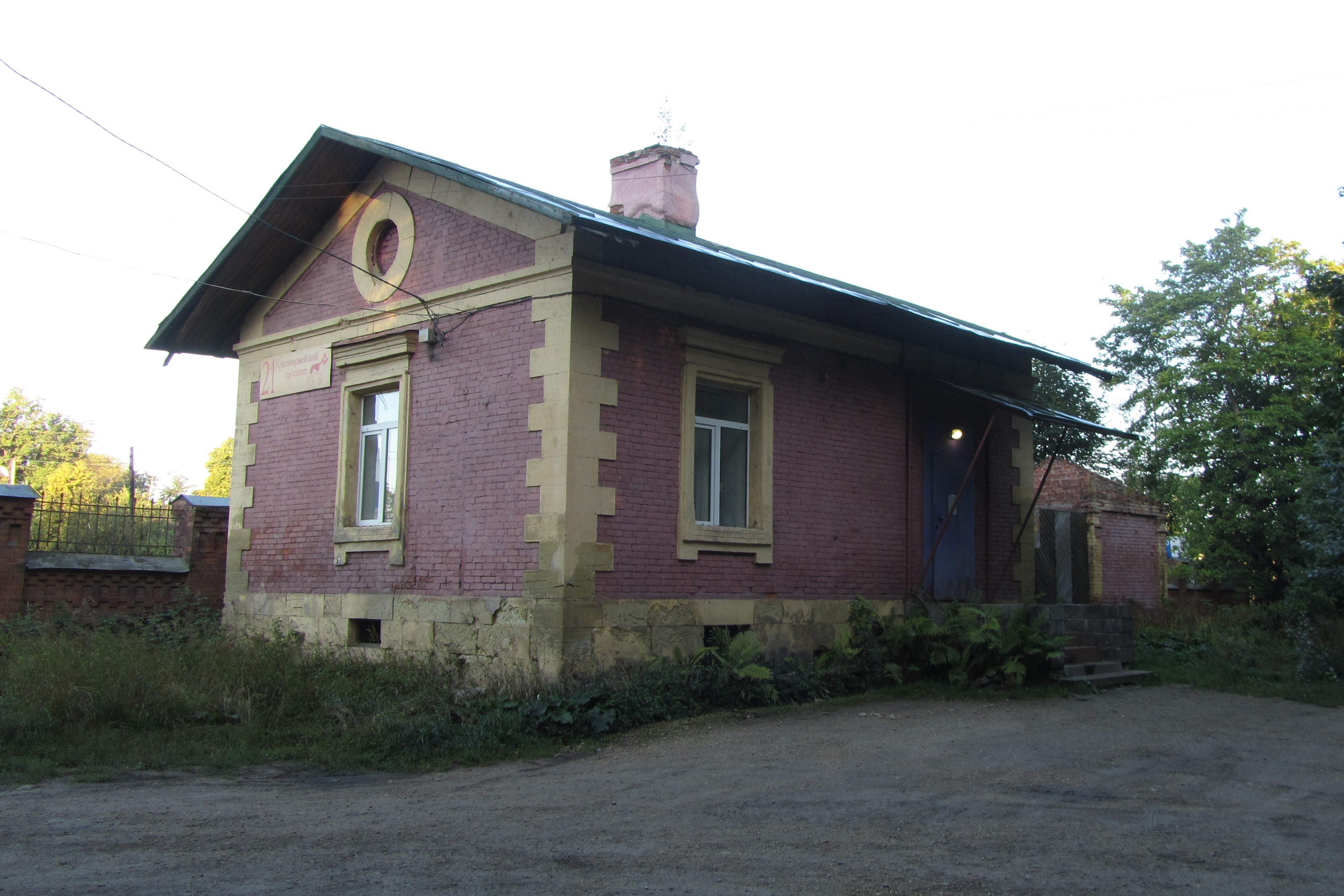 Guardhouse No 6, Sylvia park (Gatchina, Russia)